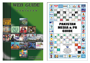 Web Guide to Pakistan and Pakistan Media & PR Guide